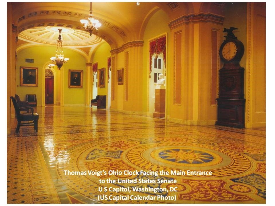 The Ohio Clock Created by Thomas Voigt in 1816 (Photo authorized by the U. S. Senate Historian – Mr, Richard Alan Baker in September 2004)